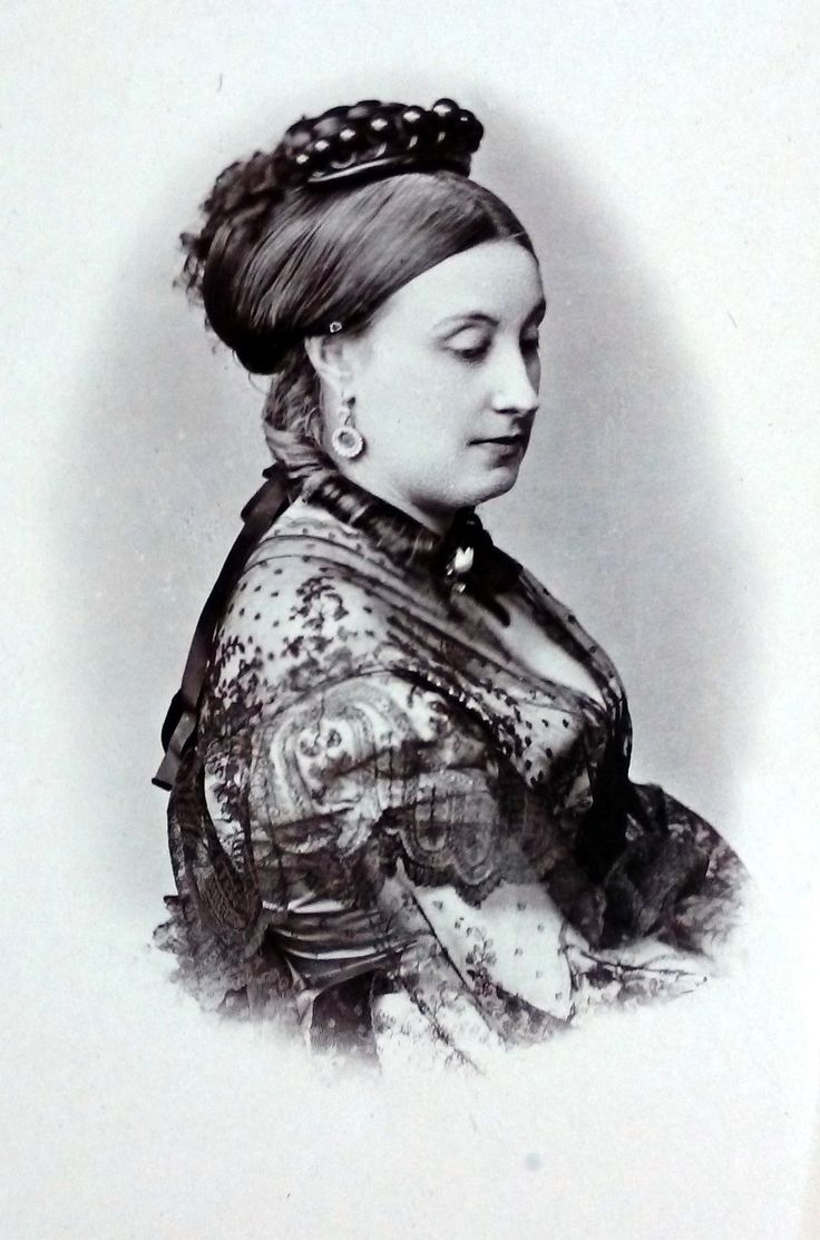 Helene Charlotte Auguste von Alten